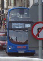 A Lothian Buses bus, a Volvo B9TL double-decker with Wrightbus Eclipse Gemini 2 bodywork, in the airport shuttle bus blue Airlink livery (route 100). Pictured on Princes Street heading east, about to turn right into The Mound, to end up back at the terminus on Waverley Bridge.